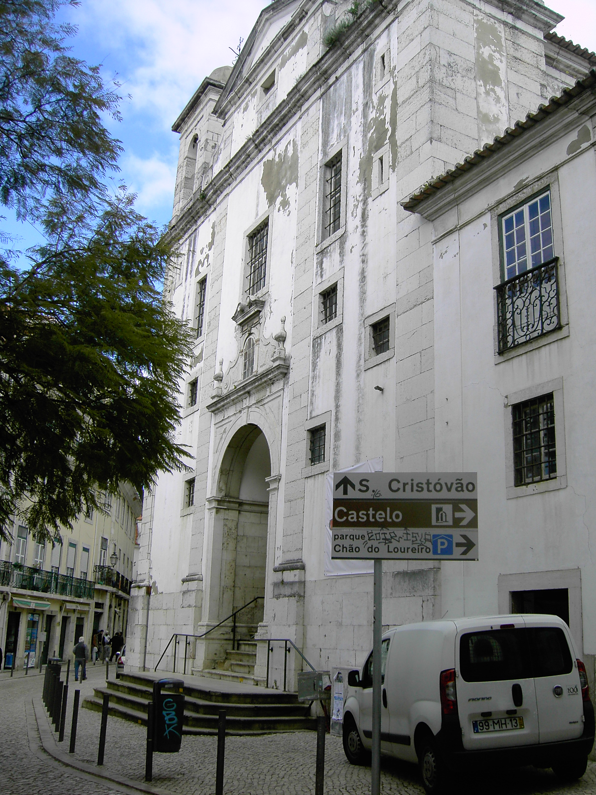 Digital StillCamera